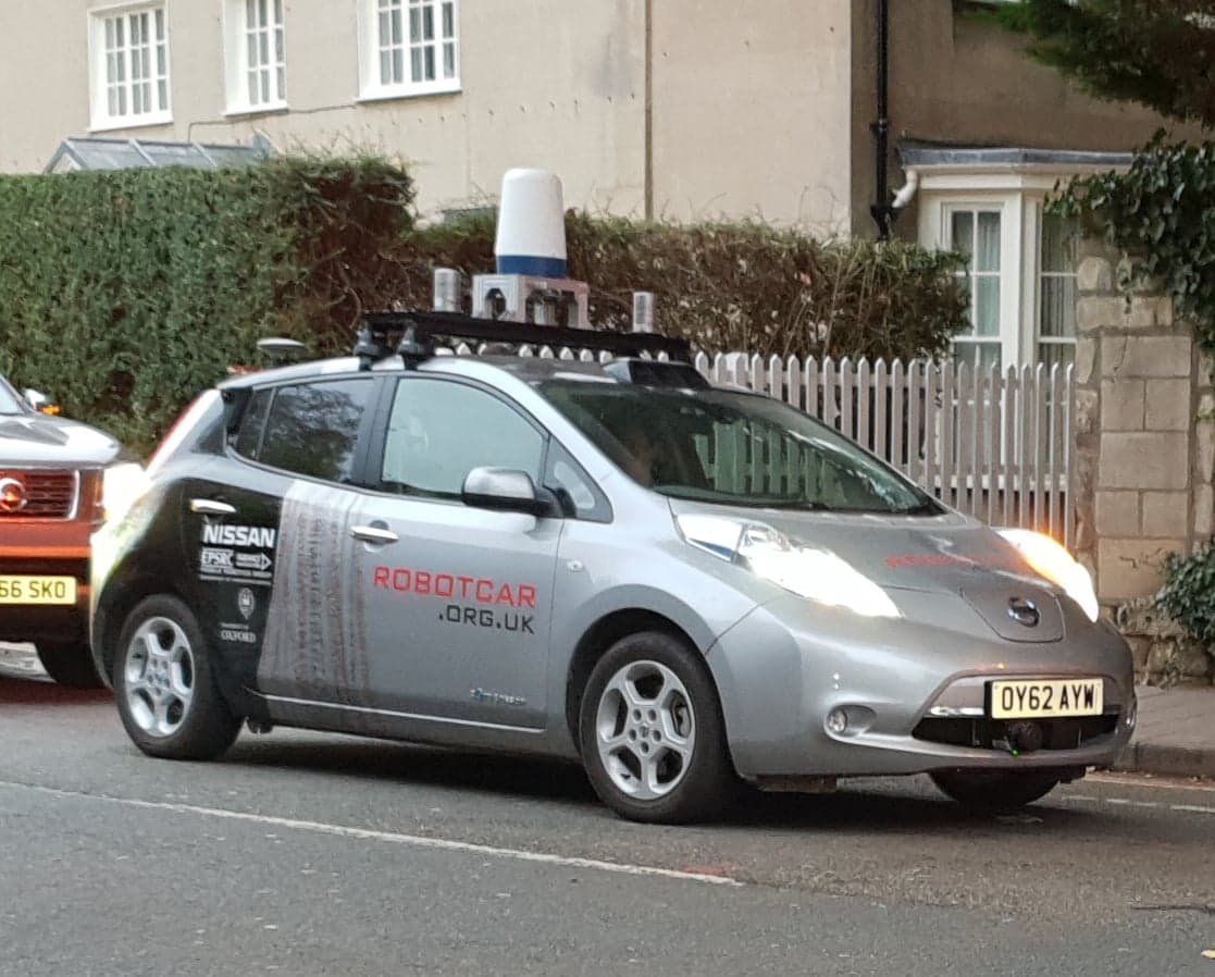 Modified Nissan Leaf used for research by the Mobile Robotics Group of the Oxford Robotics Institute in the streets of Oxford, United Kingdom. The car has various sensors attached to it including radar, LIDAR, and cameras.